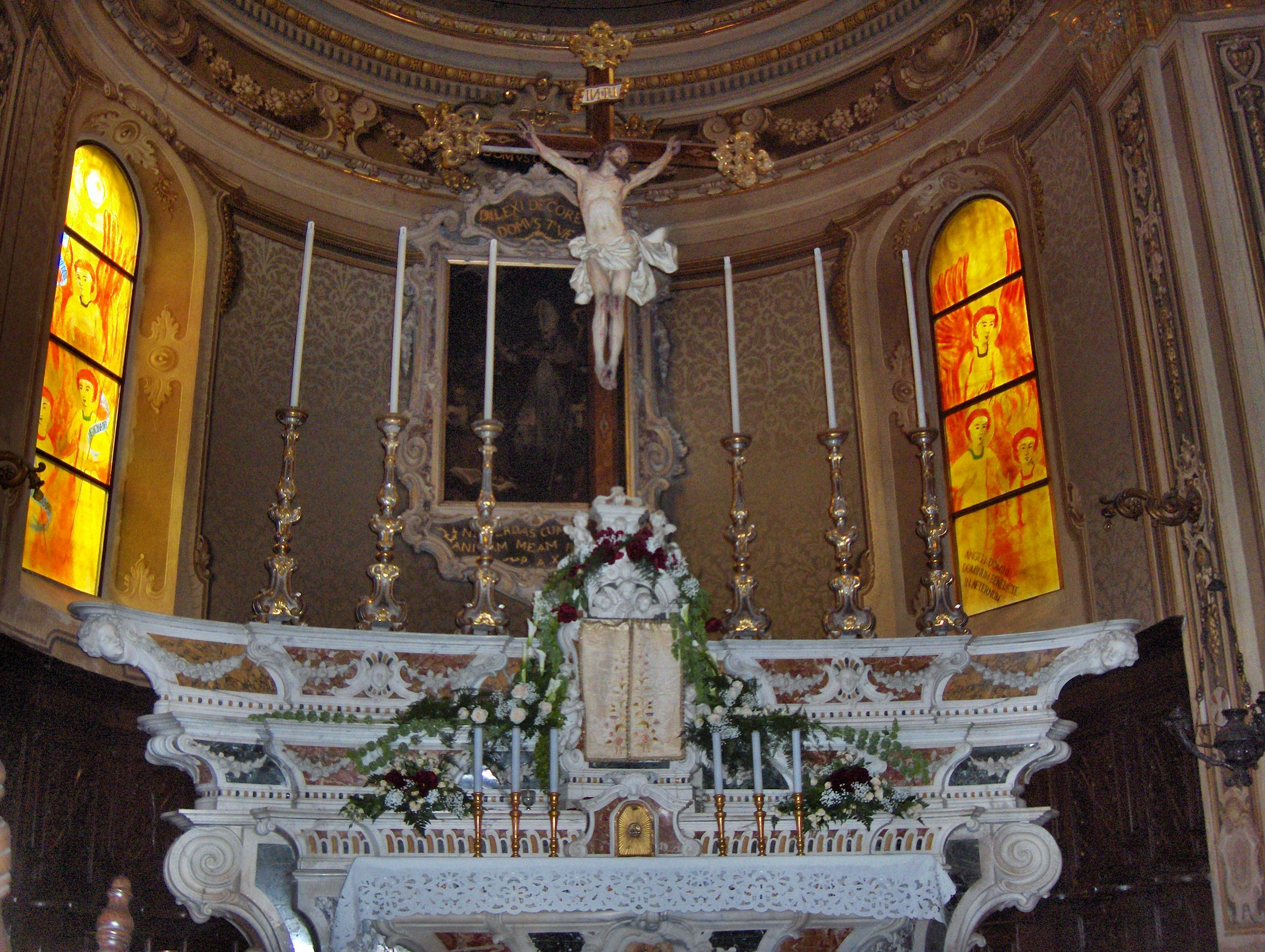 Main altar and apse of the church San Nicola di Bari; wooden crucifix attirbuted to Anton Maria Maragliano; Diano Castello, Flower Riviera, Italy